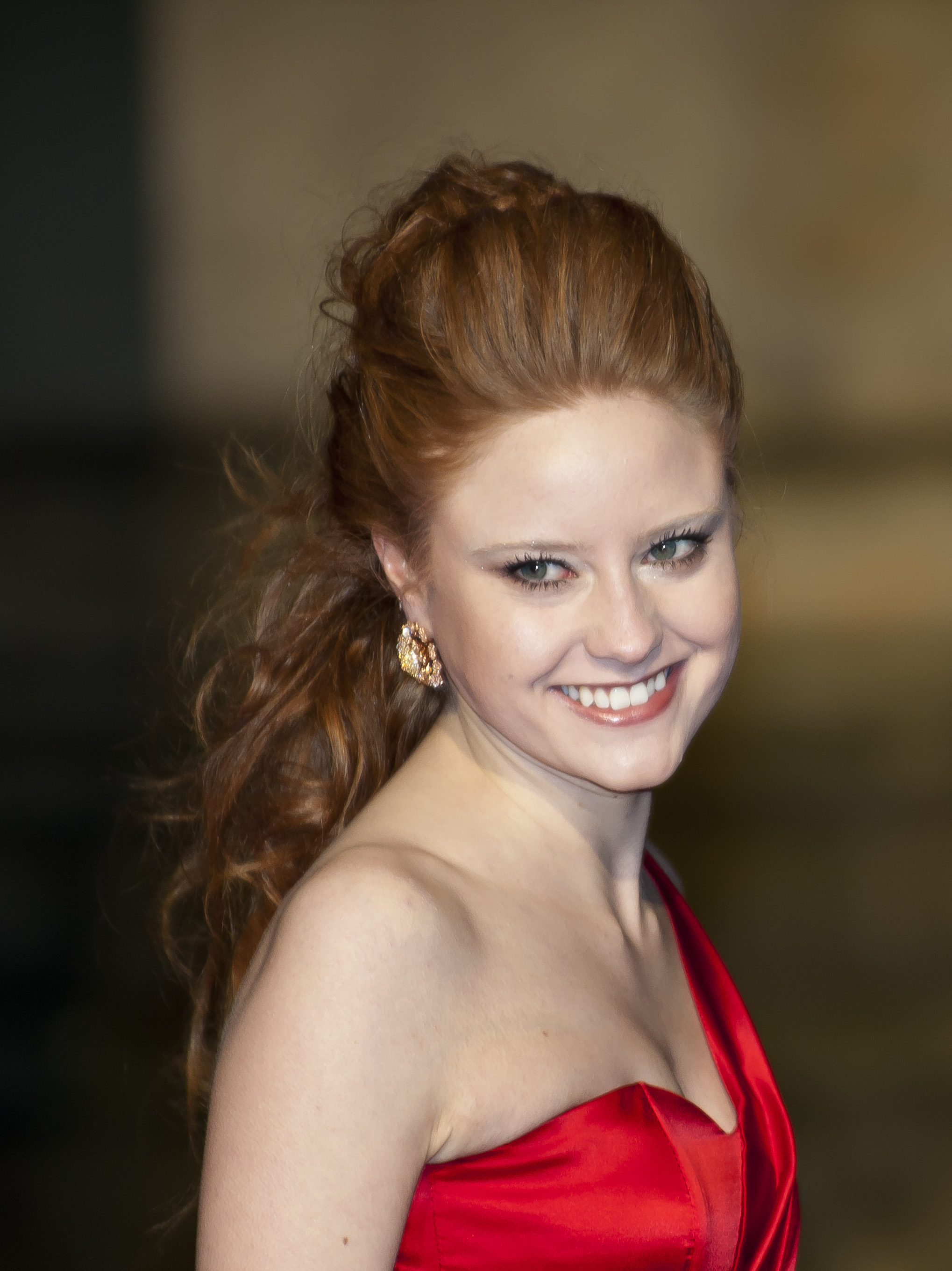 German fashion model Barbara Meier at the Cinema for Peace gala.